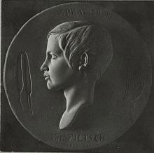 The portrait of pianist Carl Filtsch (1830-1845)